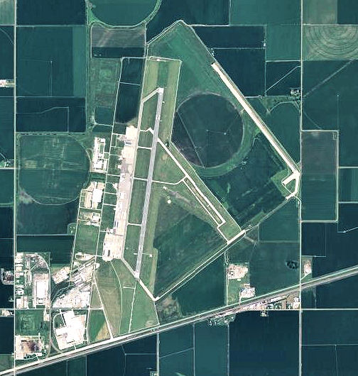 USGS digital orthophoto of Kearney Air Force Base in Nebraska